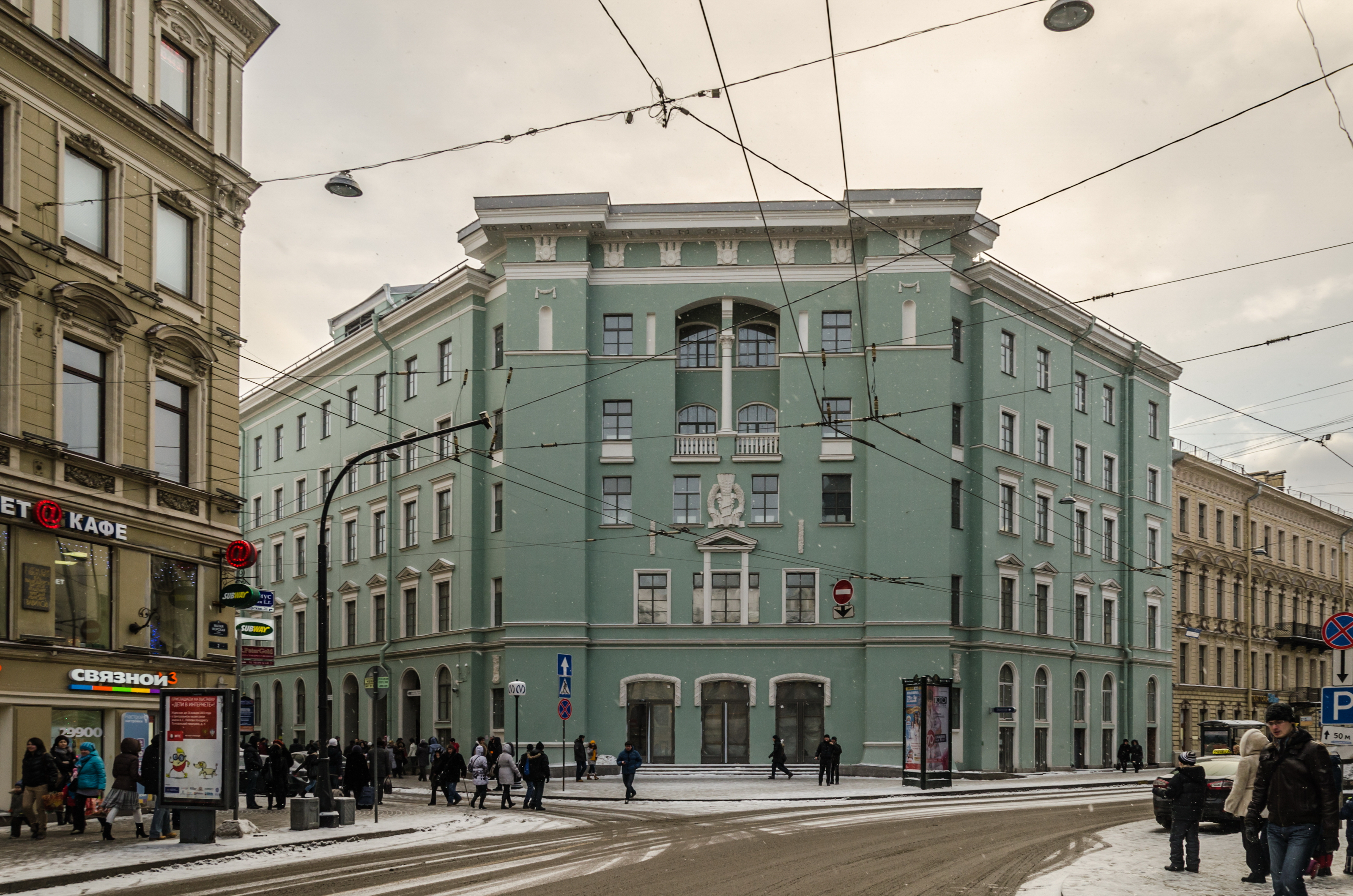 Admiralteyskaya station of Saint Petersburg Subway, vestibule building